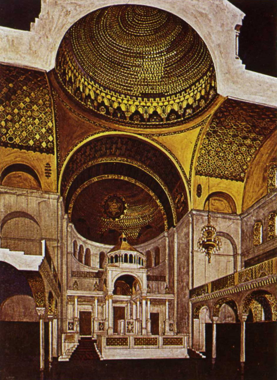 Synagogue in Fasanenstrasse, Berlin. Interior looking east. 1912, E. Hessel.